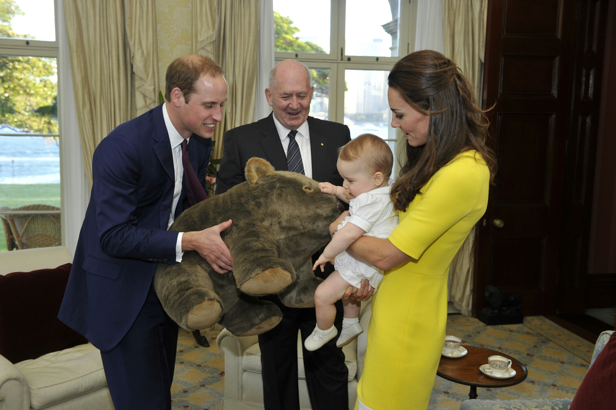 Their Royal Highnesses The Duke and Duchess of Cambridge and His Royal Highness Prince George of Cambridge were welcomed by the Governor-General, His Excellency General the Honourable Sir Peter Cosgrove AK MC (Retd) and Her Excellency Lady Cosgrove to Admiralty House, Sydney.